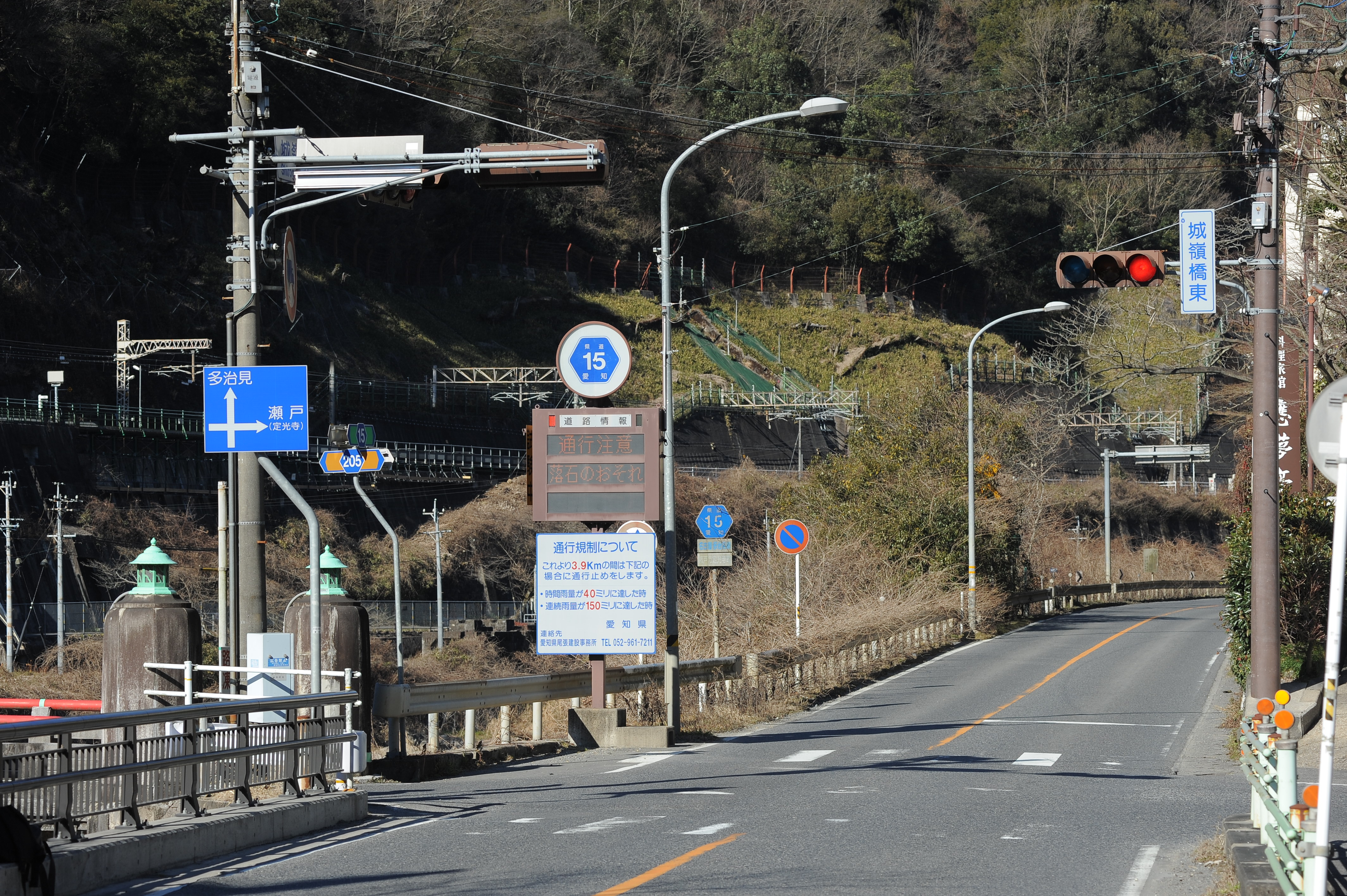 Aichi prefectural Route 15, Seto, Aichi